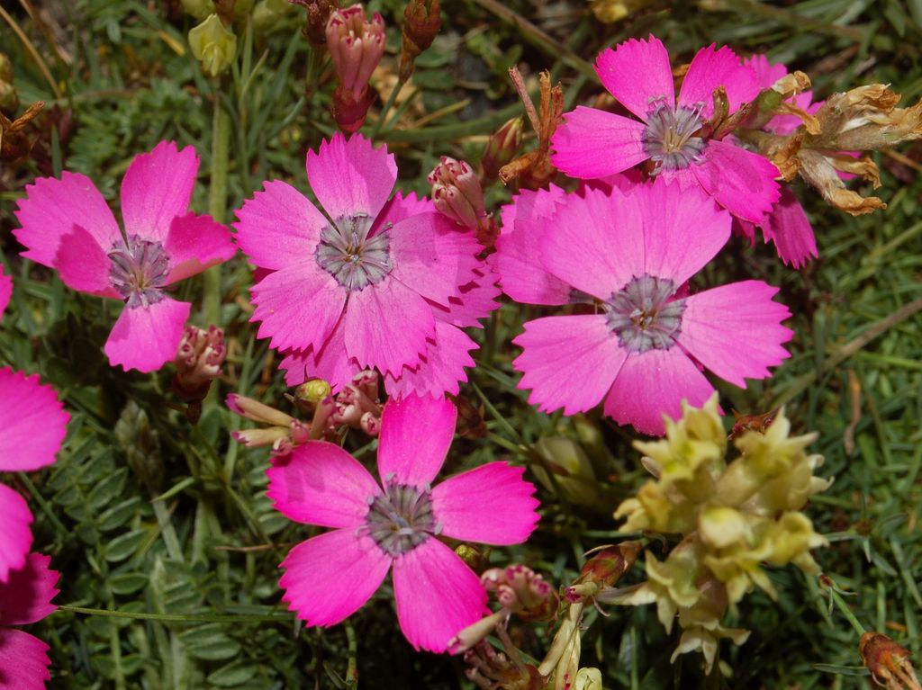 Dianthus pavonius - Piani di Praglia, Genova, Italy